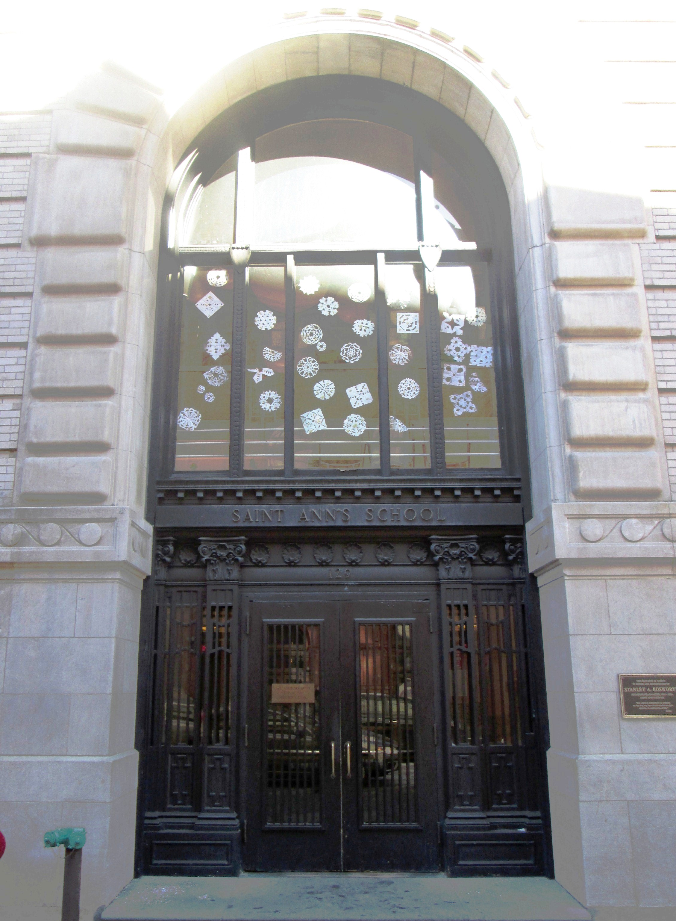 St. Ann's School at 129 Pierrepont Street at the corner of Clinton Street in the Brooklyn Heights neighborhood of Brooklyn, New York City was built in 1906 as the clubhouse for the Crescent Athletic Club, and was designed by Frank Freeman. When the club closed in 1940, it was an office building until the school bought it in 1966. (Source: AIA Guide to NYC (5th ed.))